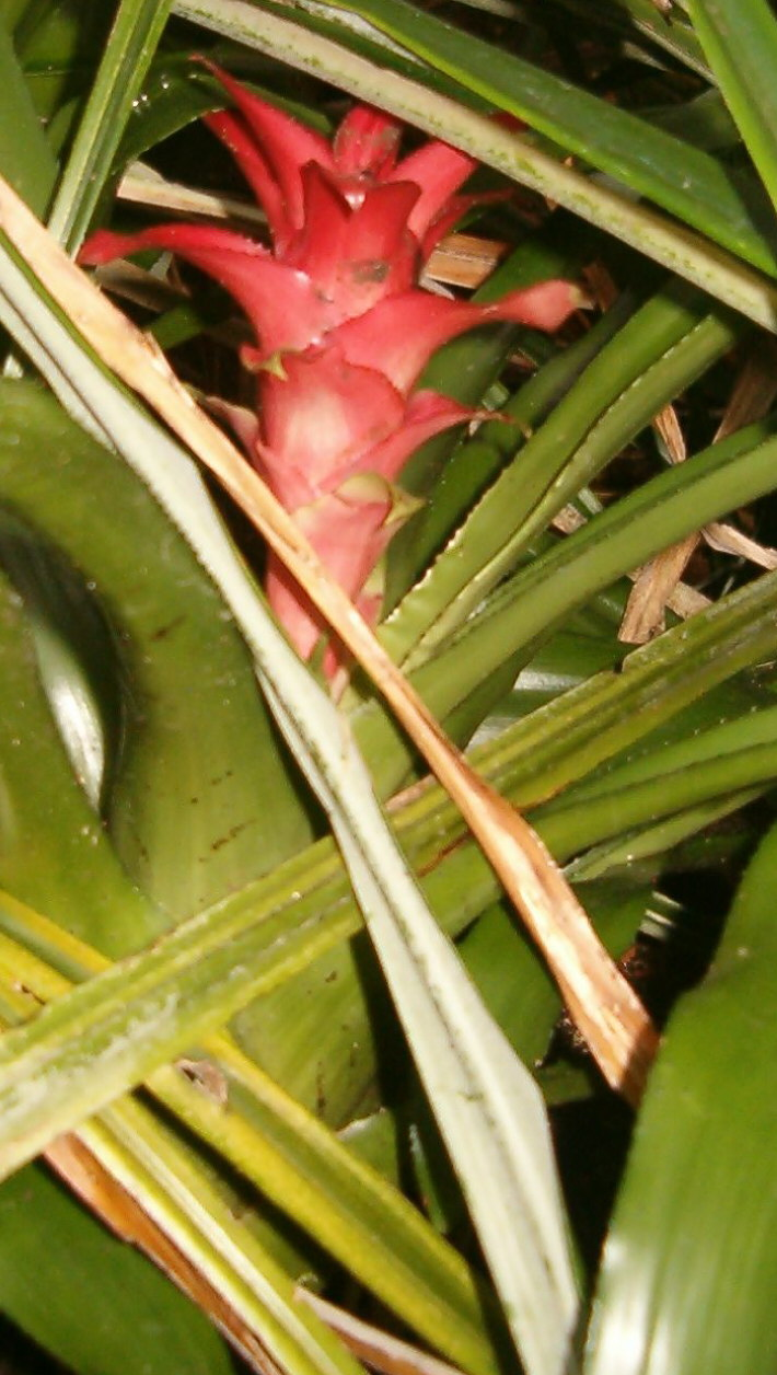 Location: Botanical Gardens Berlin Dahlem